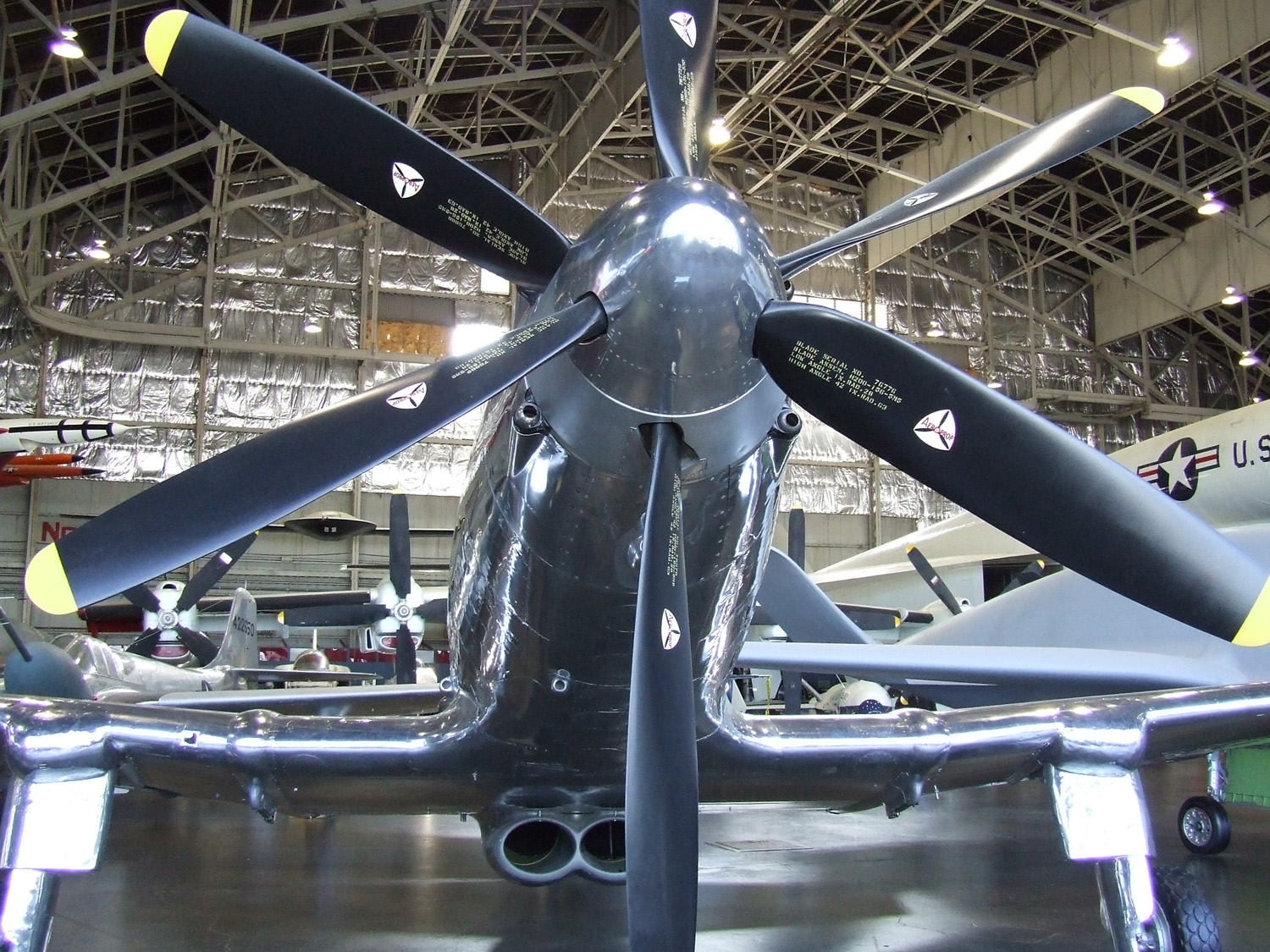 General Motors P-75 Eagle at Wright Patterson Air Force Base